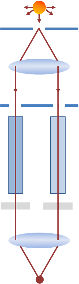 Rayleigh interferometer